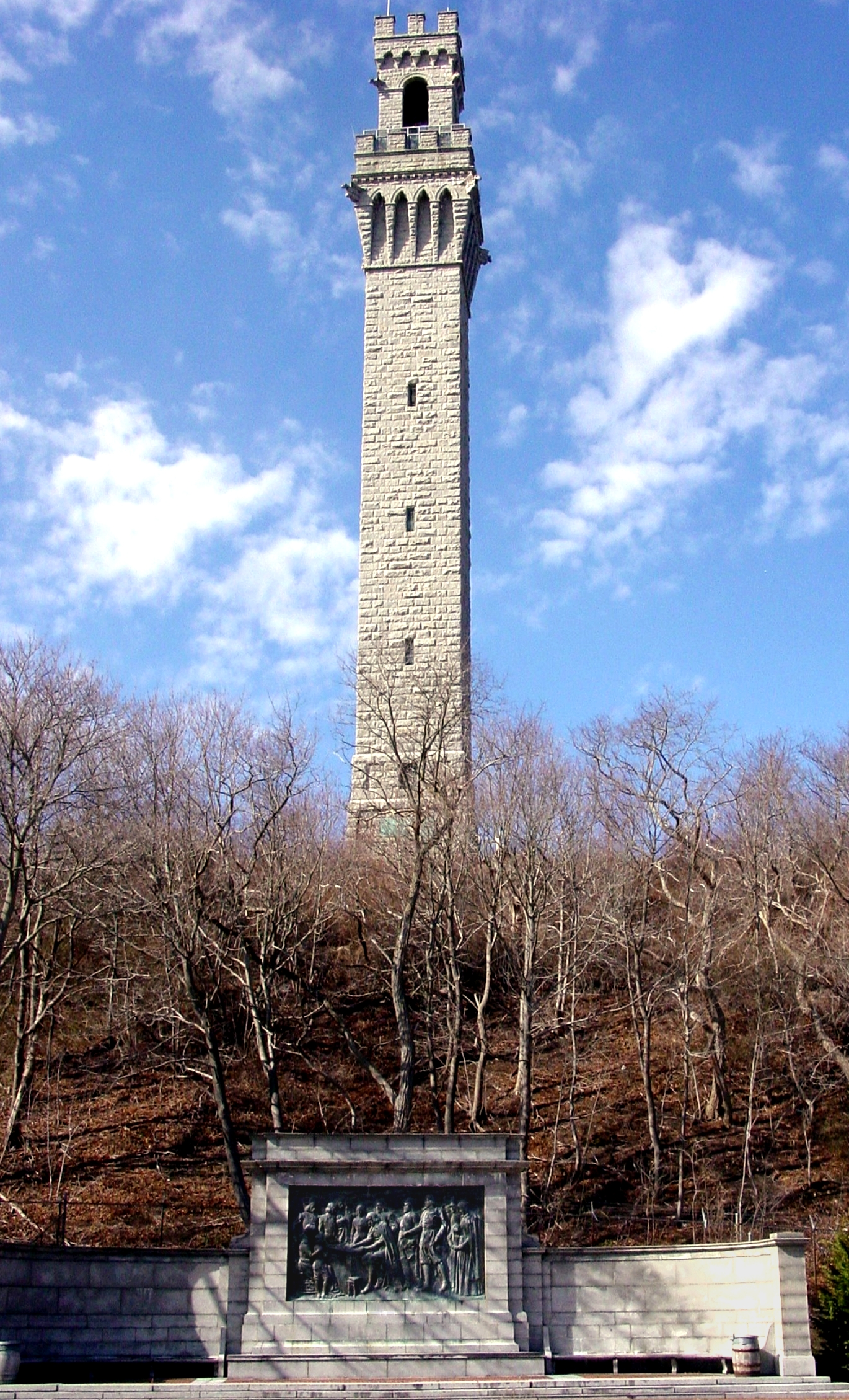 Pilgrim Monument and Bas Relief as viewed from Bradford St.